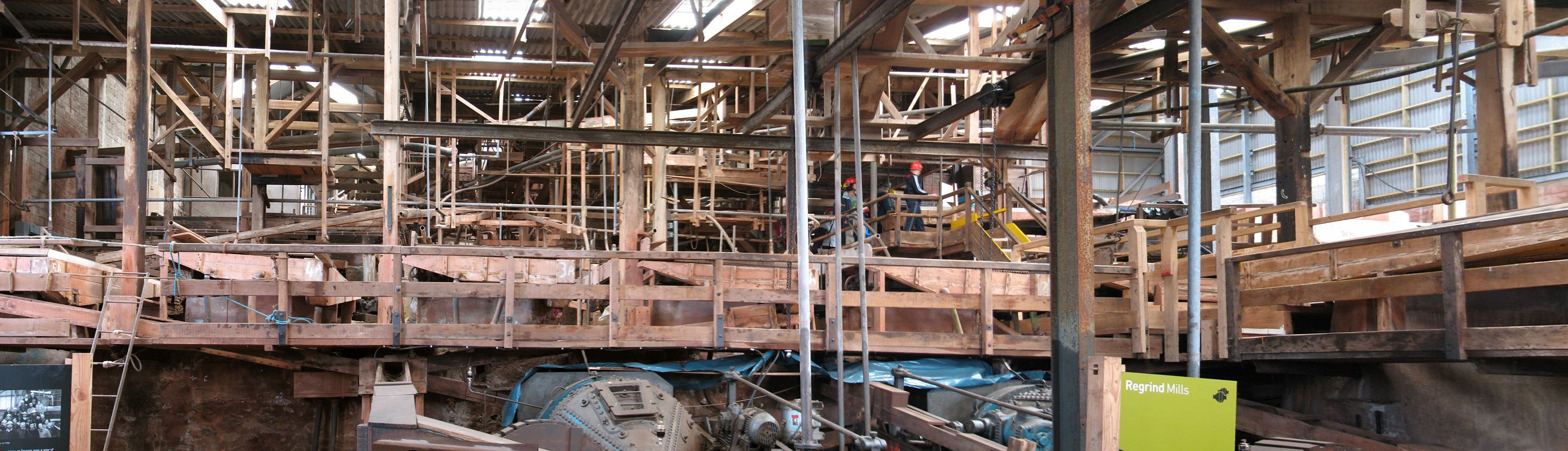 Panorama of part of the interior of the ore processing mill at Geevor Tin Mine, Cornwall, England.